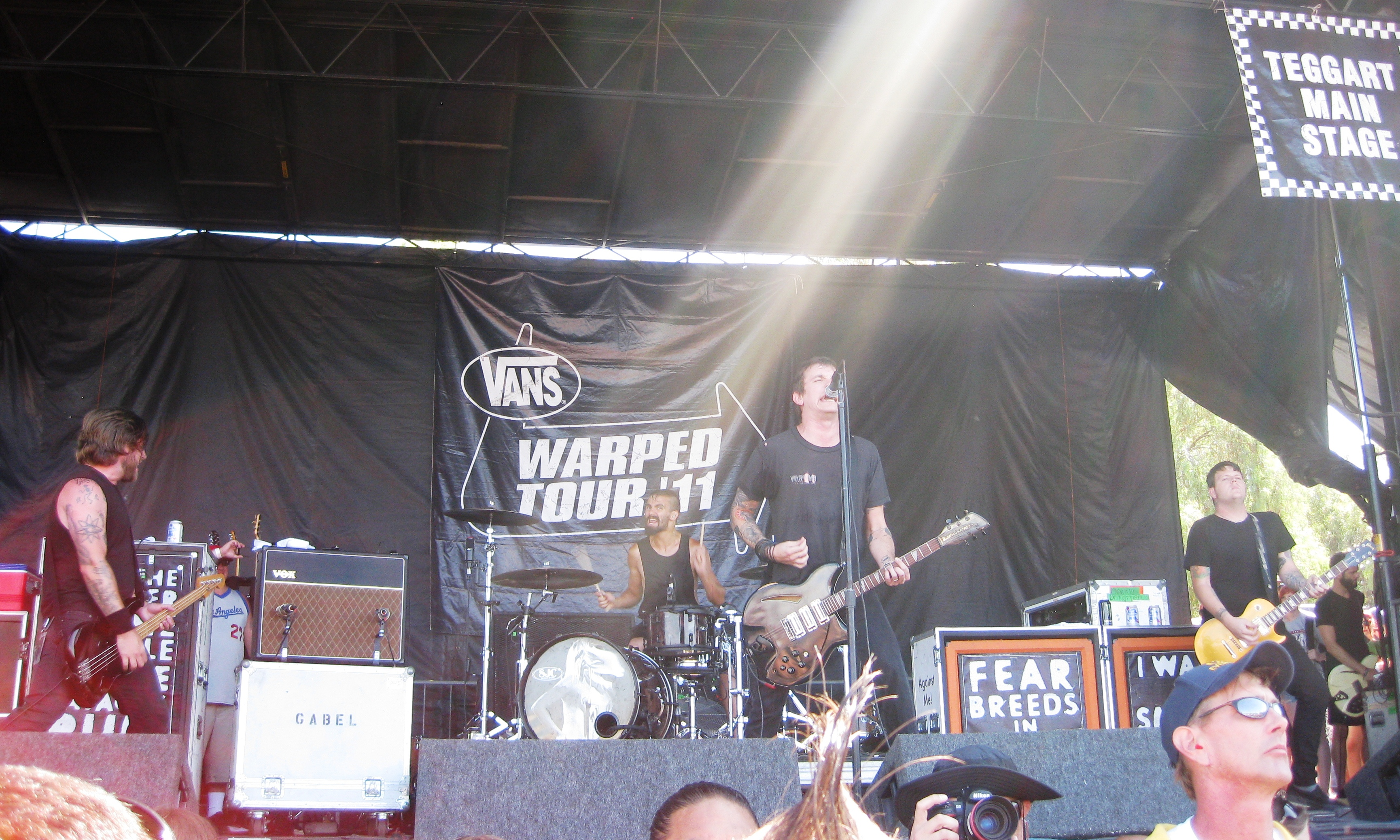 Against Me! performing on the Warped Tour in Chula Vista, California on August 9, 2011. Left to right: bassist/backing vocalist Andrew Seward, drummer Jay Weinberg, guitarist/lead vocalist Laura Jane Grace (Then known as Tom Gabel), and guitarist/backing vocalist James Bowman.